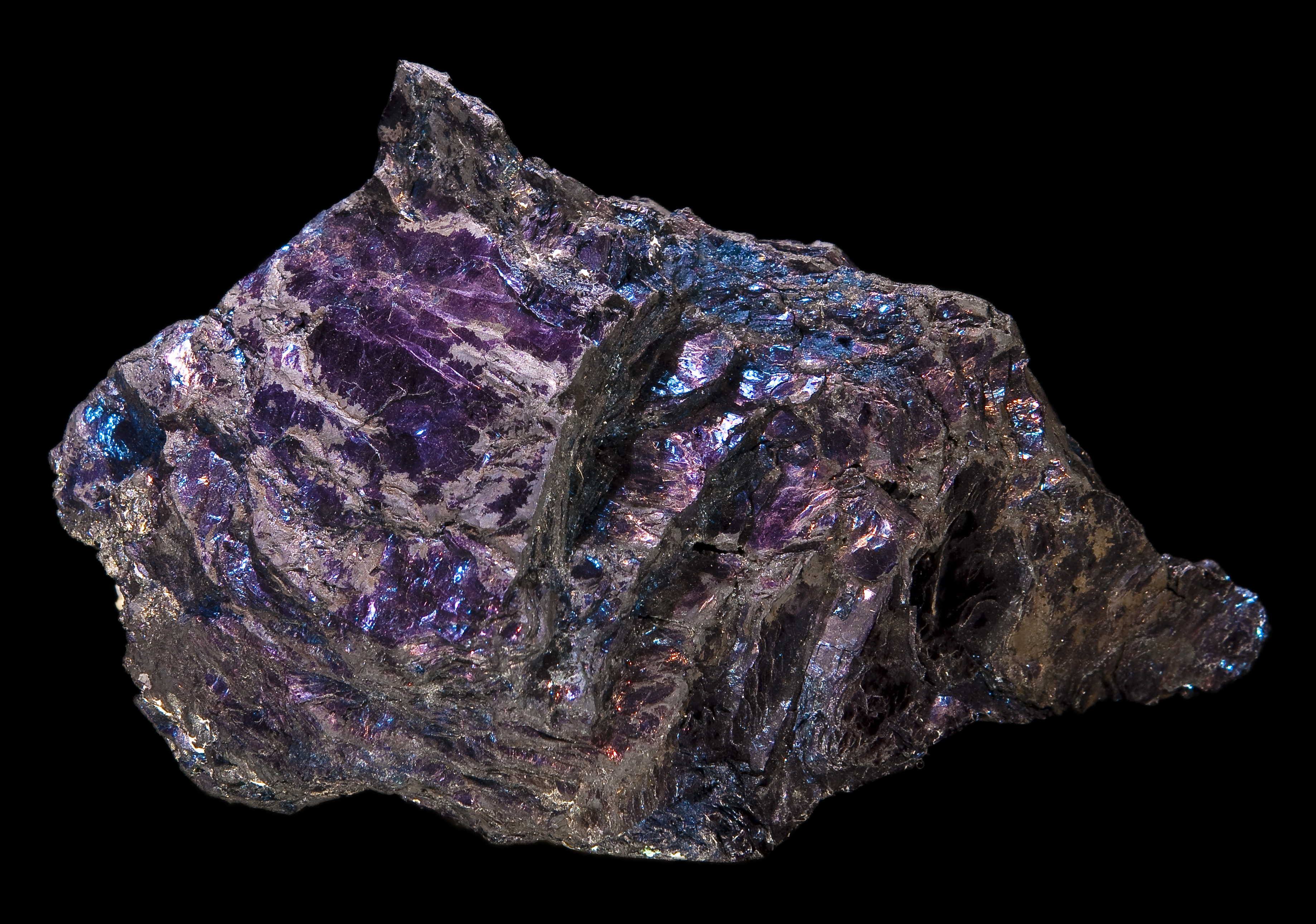 Covellite Locality: Leonard Mine, Butte, Butte District, Silver Bow County, Montana, USA Size : 7.5x5x4cm